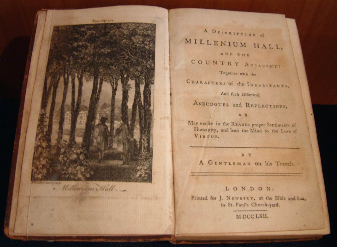 Photograph of an early edition of Sarah Scott's Millennium Hall.